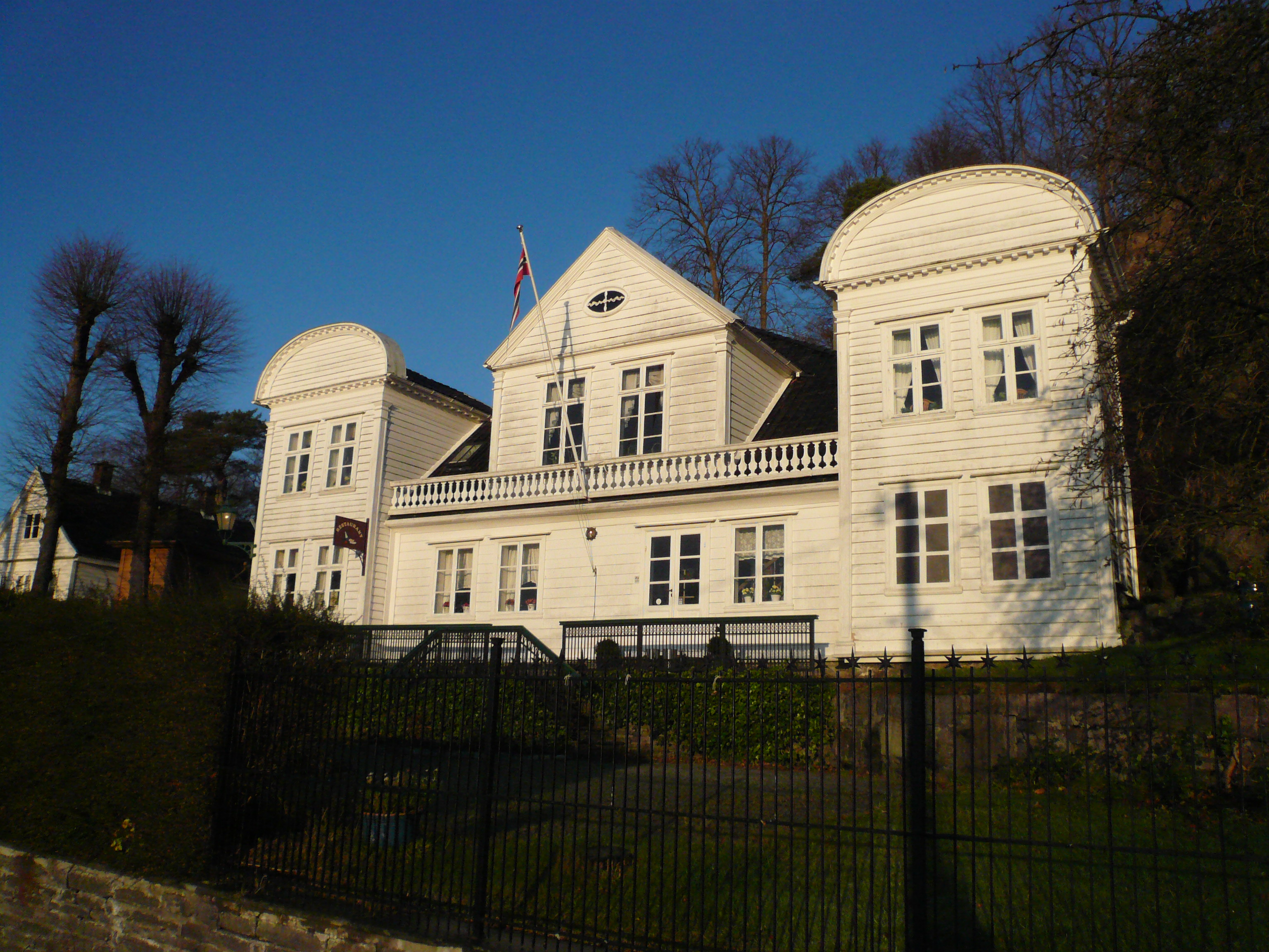 Elsesro, Gamle Bergen museum, Bergen, Norway